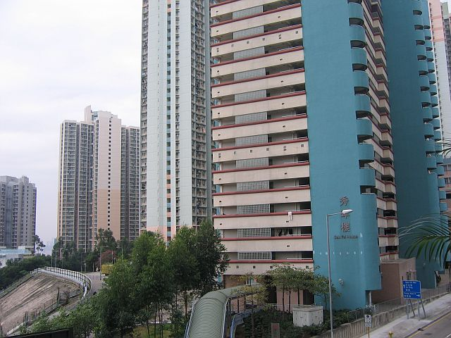 Sau Mau Ping Estate, Sau Mau Ping